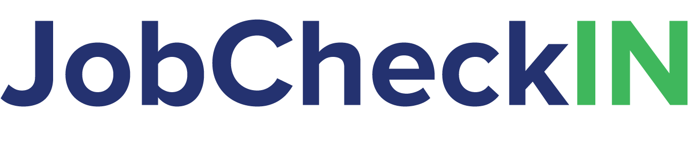 The logo of JobCheckIN